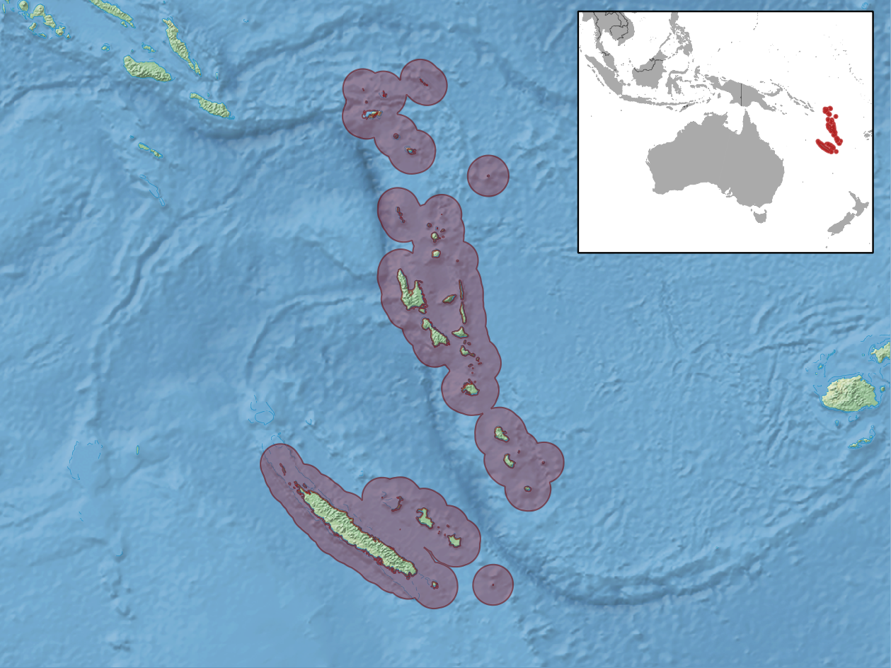 geographic distribution of Laticauda frontalis